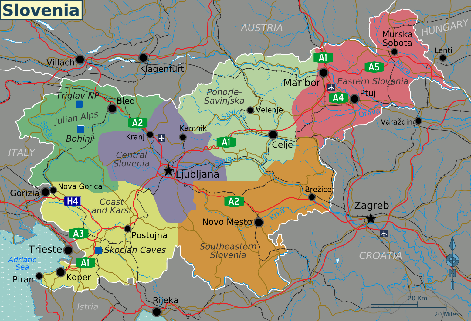 Map of Slovenia. Wikivoyage map of regions, cities and other destinations in Slovenia, Slovenia Map of: Slovenia¤.